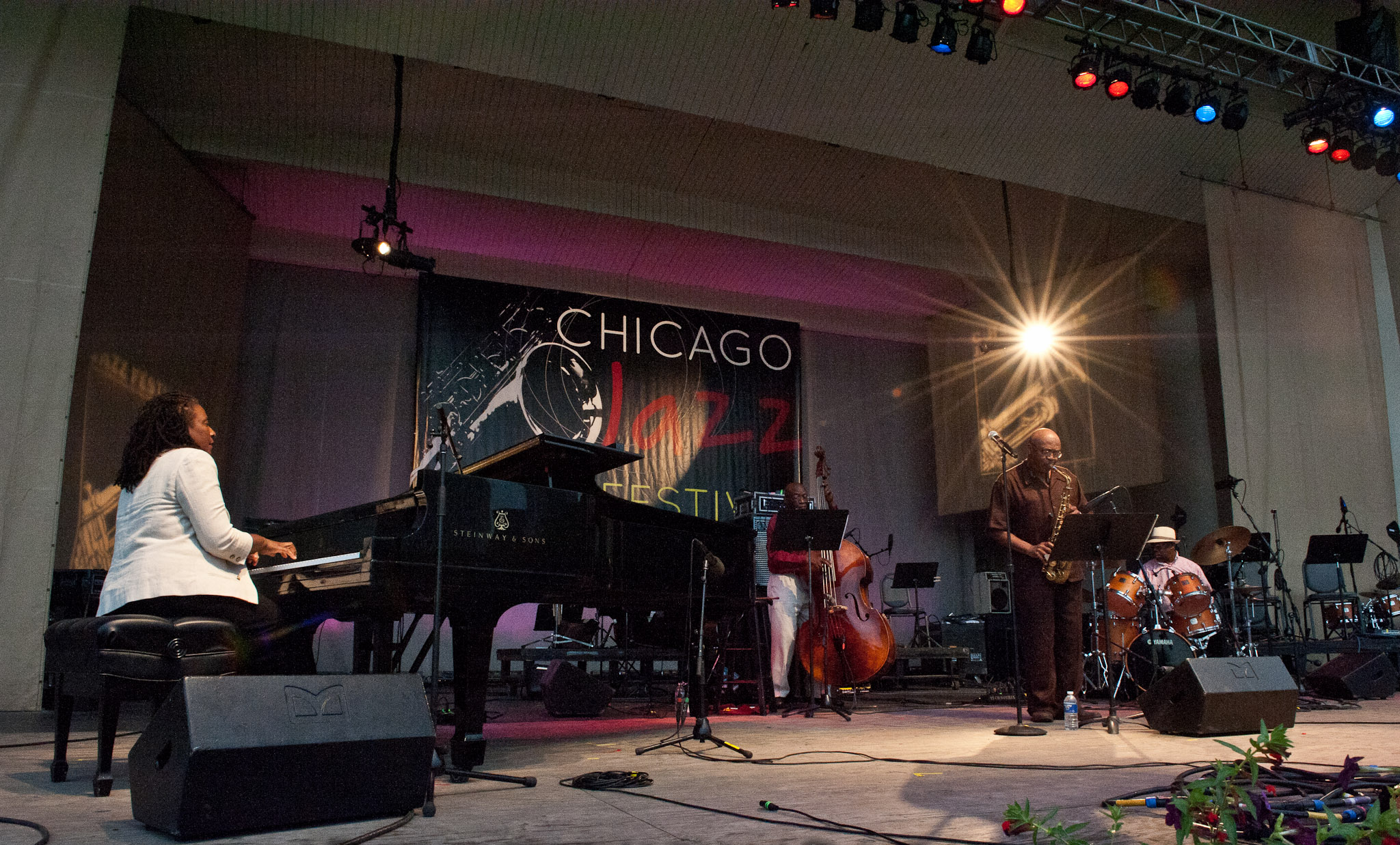 If you’ve been keeping up with your numerology, you know that Trio 3 is a longstanding collective threesome comprised of bona fide greats who breathe jazz history through every note. Bassist Reggie Workman was a member of John Coltrane’s legendary Live at the Village Vanguard quartet. Drummer Andrew Cyrille helped rewrite jazz with the Cecil Taylor Unit. Slashing saxophonist and flutist Oliver Lake co-founded the Black Artist Group, a St. Louis counterpart to Chicago’s Association for the Advancement of Creative Musicians, and is a charter member of the World Saxophone Quartet. And then there are their individual endeavors, which span pre-swing, bebop and free jazz, rap, dance and world music. Cyrille’s solo drum performances and duets with traps genius Milford Graves dared go where no drummer had gone before. Lake, a prolific composer in new music as well as jazz, broke new ground with his roots-reggae band Jumpin’ Up and his Steel Quartet. Workman’s remarkable African-American Legacy Project features a 20-piece orchestra and 18-member chorus. If Trio 3′s range isn’t remarkable enough as it is, the addition of pianist Geri Allen puts it over the top. Firmly established in the pantheon of living pianists, she has made one major statement after another in recent times with her Mary Lou Williams tributes, solo recording and Timeline band album. Allen, whose latest recording with Trio 3 is the live Celebrating Mary Lou Williams, is another artist who views modern jazz and its earlier styles on the same continuum. Quartet 4, if you will, may be the best case of addition by addition you’ll ever hear. SATURDAY, SEPTEMBER 3 Petrillo Music Shell Trio 3 + Geri Allen 6:00 – 6:55 pm